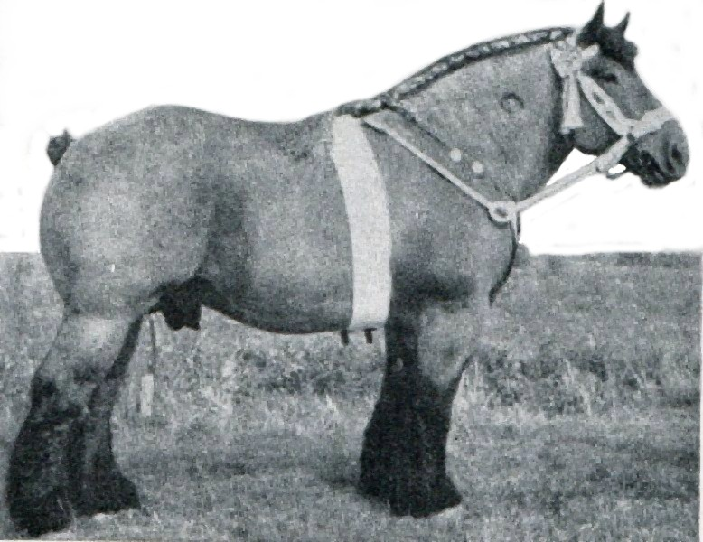 A Dutch Draught Horse stallion.